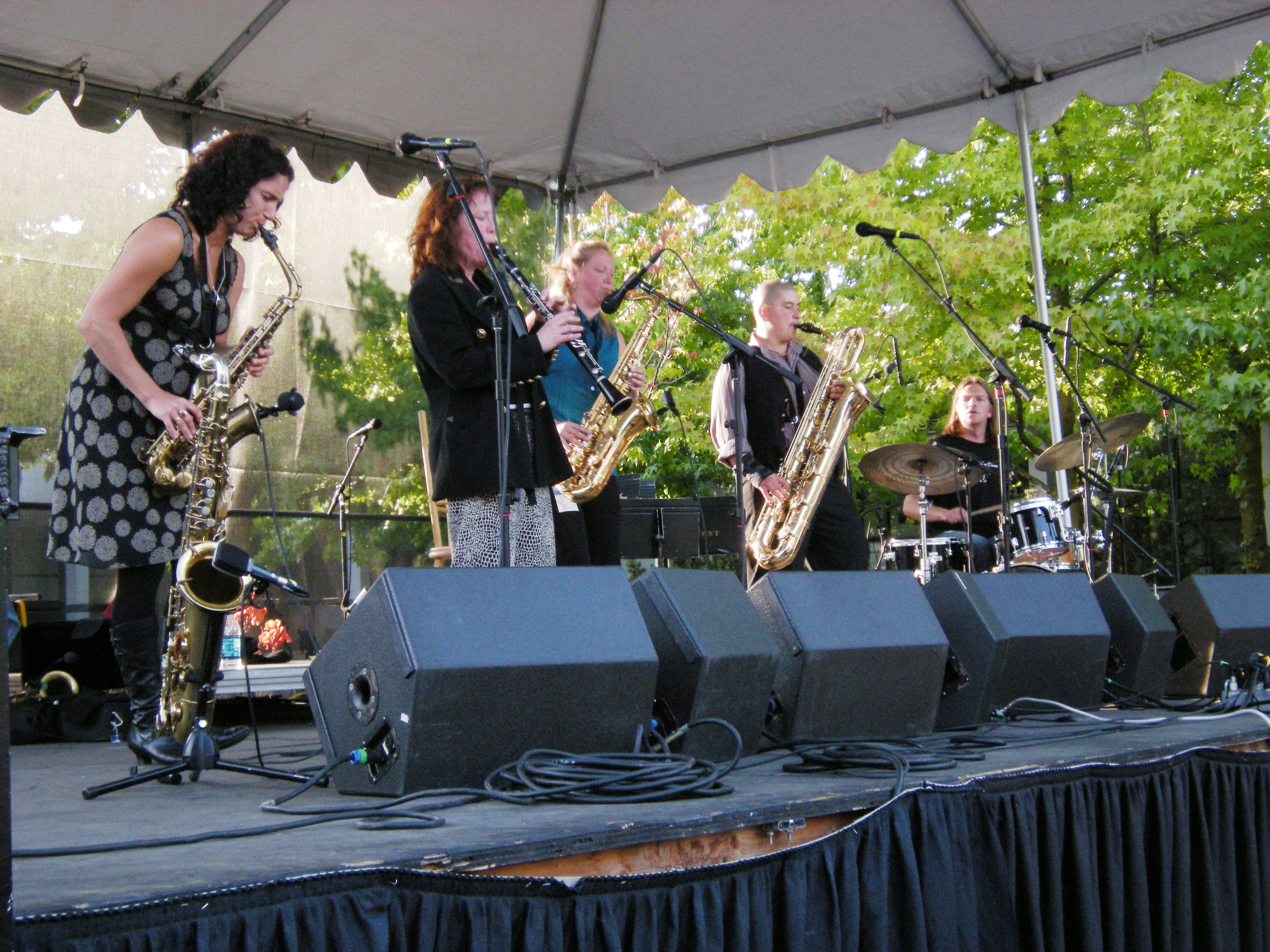 Billy Tipton Memorial Saxophone Quartet performing at Bumbershoot 2008, Seattle Center, Seattle, Washington. Left to right: Jessica Lurie, Amy Denio, Sue Orfield, Tina Richerson, unidentified drummer.